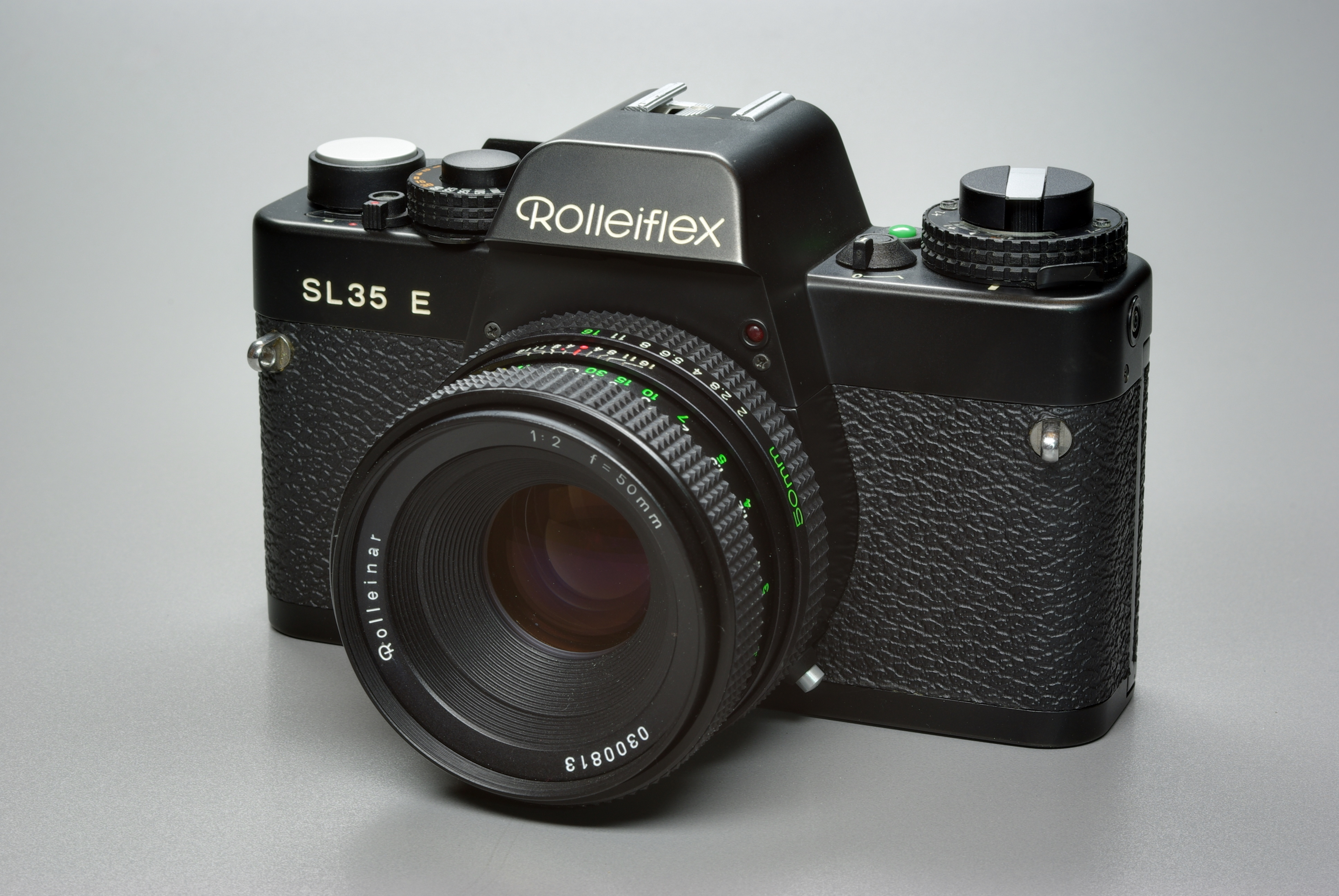 The Rolleiflex SL 35 E is a camera to use 35 mm film by german manufacturer Rollei produced from 1978 in Singapore.